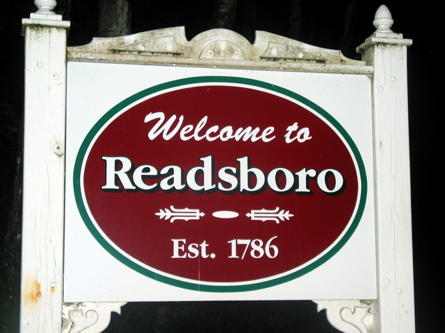 Photo taken June 26, 2006 in Readsboro, Vermont. I took this photo myself and release it to the public domain.